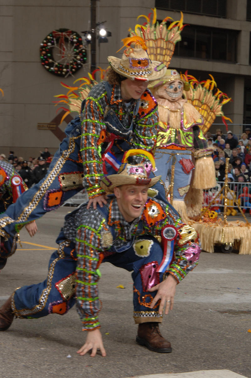 Golden Sunrise NYA members strut their stuff.